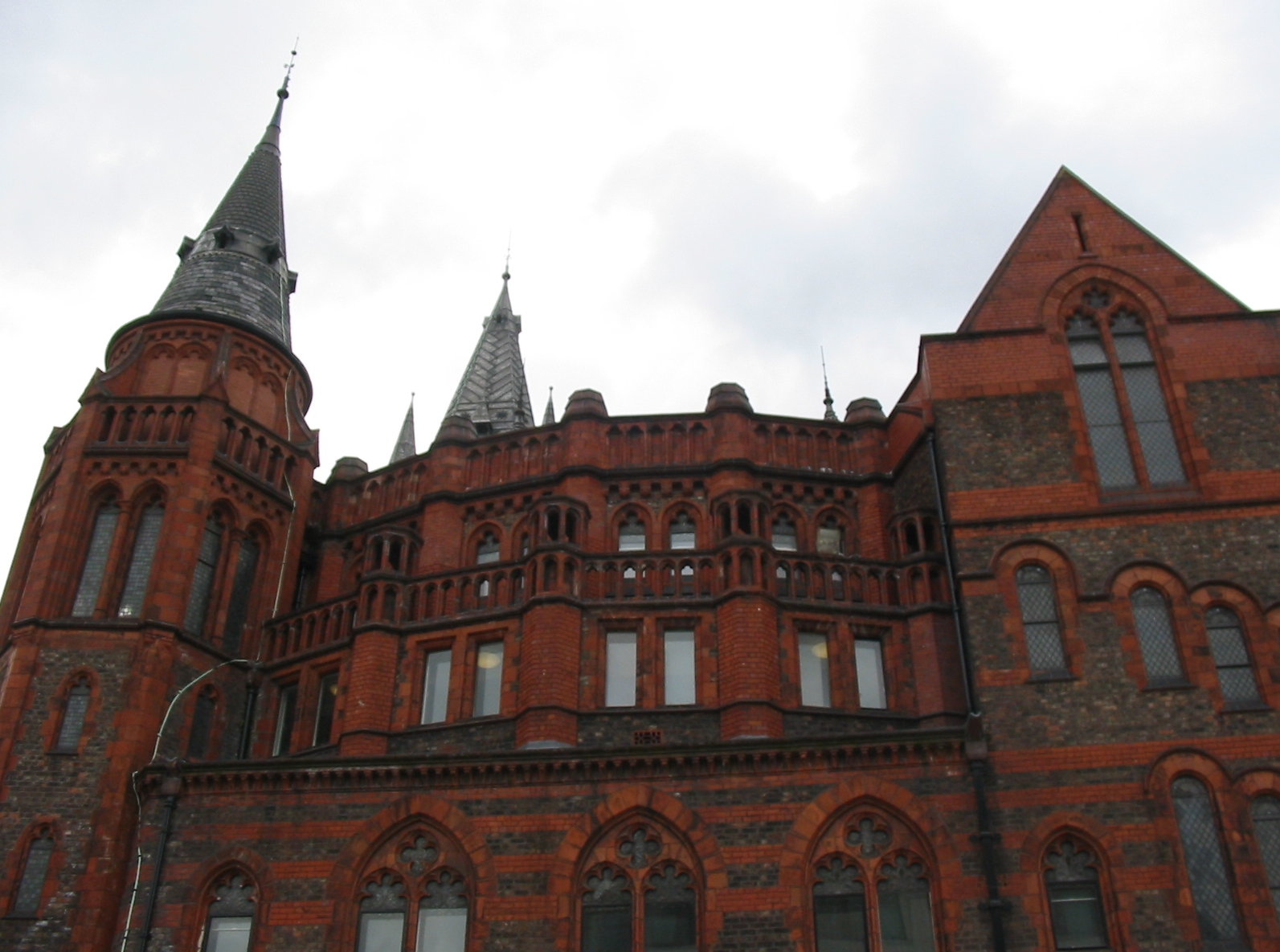 Liverpool